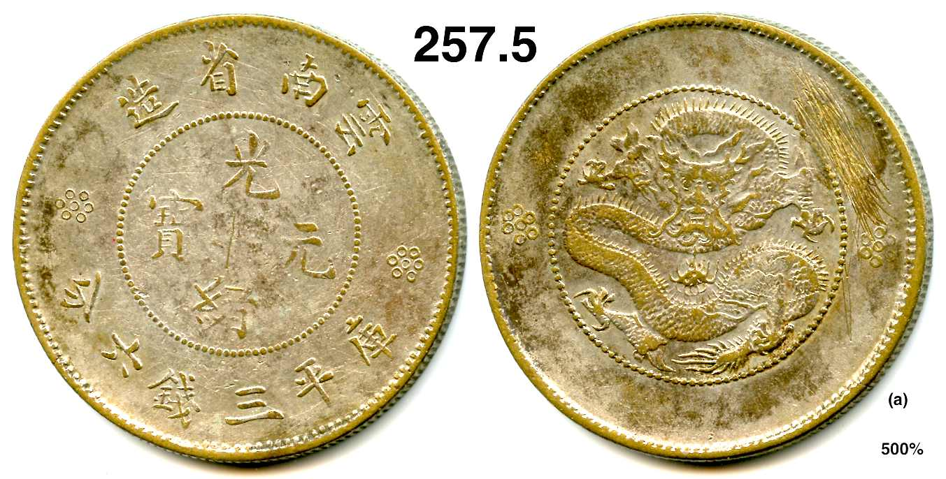 云南 YUNNAN 雲南 PHOTO Y# DESCRIPTION PRICE 10v.0 10 Cash, CD1906, Kuang-hsu, TCTK, Dragon, Tien mintmark, Variety: Small waves below dragon CCC569, W1324 VF+ $35.00 S 257.0 50 Cents, ND (1911-15), Kuang-hsu, Dragon, No Legends rev., Variety: Two circles below pearl. Many subvarieties exist. LM422 AU toned $45.00 DM 257.1a 50 Cents, ND (1911-15), Kuang-hsu, Dragon, No Legends rev., Variety: Three circles with dots below pearl. Many subvarieties exist. LM422 VF $22.50 DC 257.1b 50 Cents, ND (1911-15), Kuang-hsu, Dragon, No Legends rev., Variety: Three circles without dots below pearl. Many subvarieties exist. LM422 VF $19.50 DC 257.2 50 Cents, ND (1920-31), Kuang-hsu, Dragon, No Legends rev., Variety: Four circles without dots below pearl. Many subvarieties exist. Low fineness. LM422 EF+ $25.00 DM 257.4 50 Cents, ND (1949), Kuang-hsu, Dragon, No Legends rev., Variety: Two circles with dots below pearl. Low fineness restrike. Ugly but scarce. weak $40.00 DC 257.5 50 Cents, ND (1949), Kuang-hsu, Dragon, No Legends rev., Variety: Four circles without dots below pearl (as 257.2 but low fineness). Low fineness restrike. Ugly but scarce. scratches $40.00 DC.